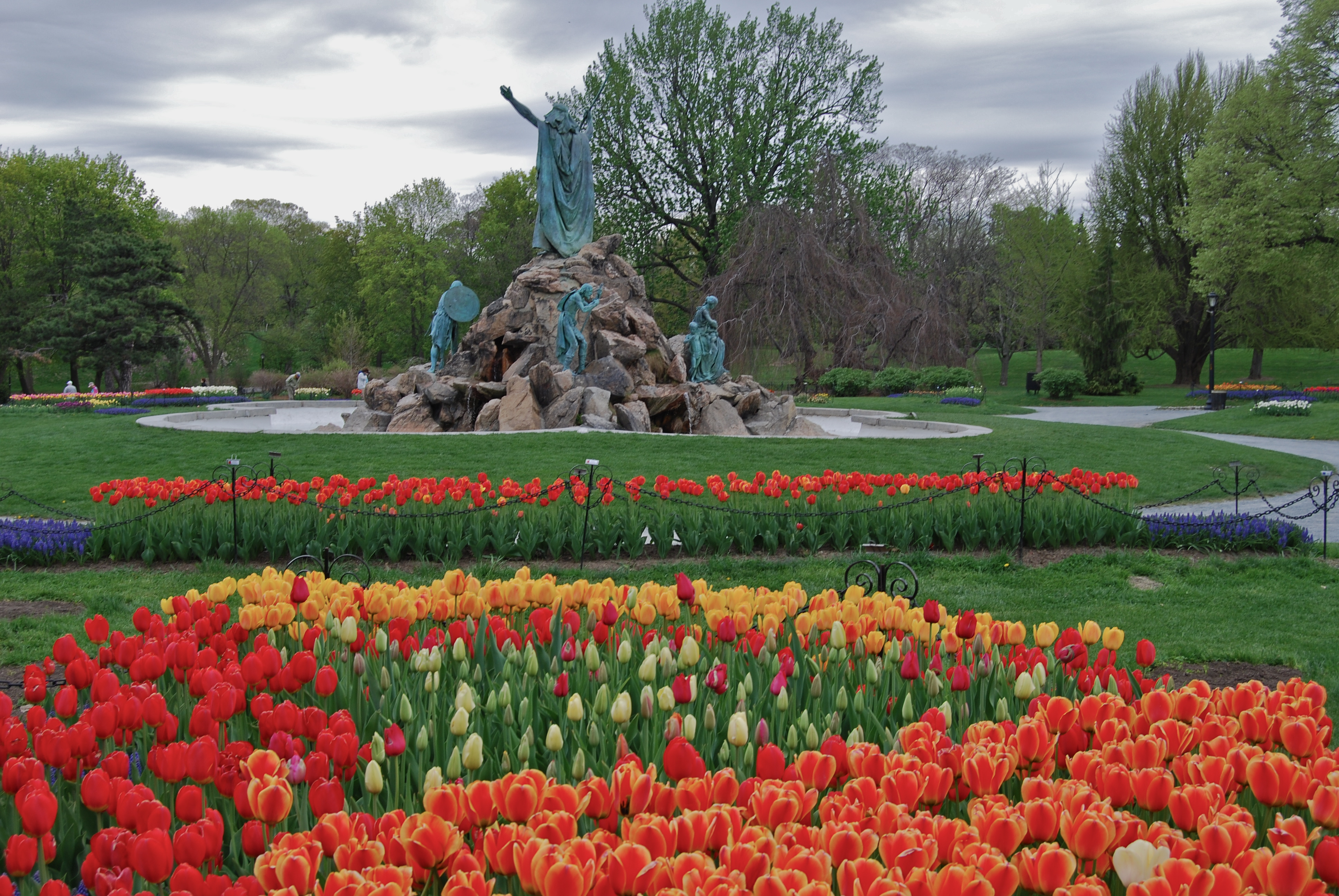 King Fountain at Washington Park in Albany, New York, United States.